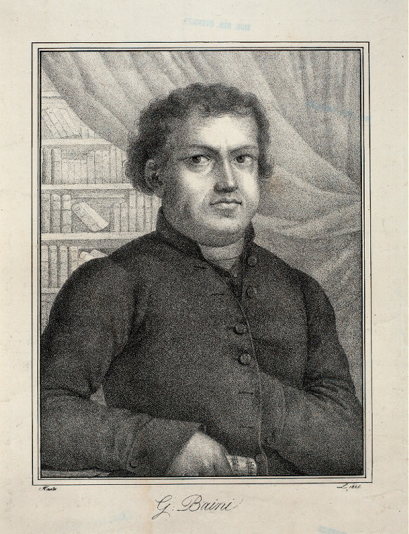 Giuseppe Baini (October 21, 1775 – May 21, 1844) was an Italian priest, music critic, and composer of church music